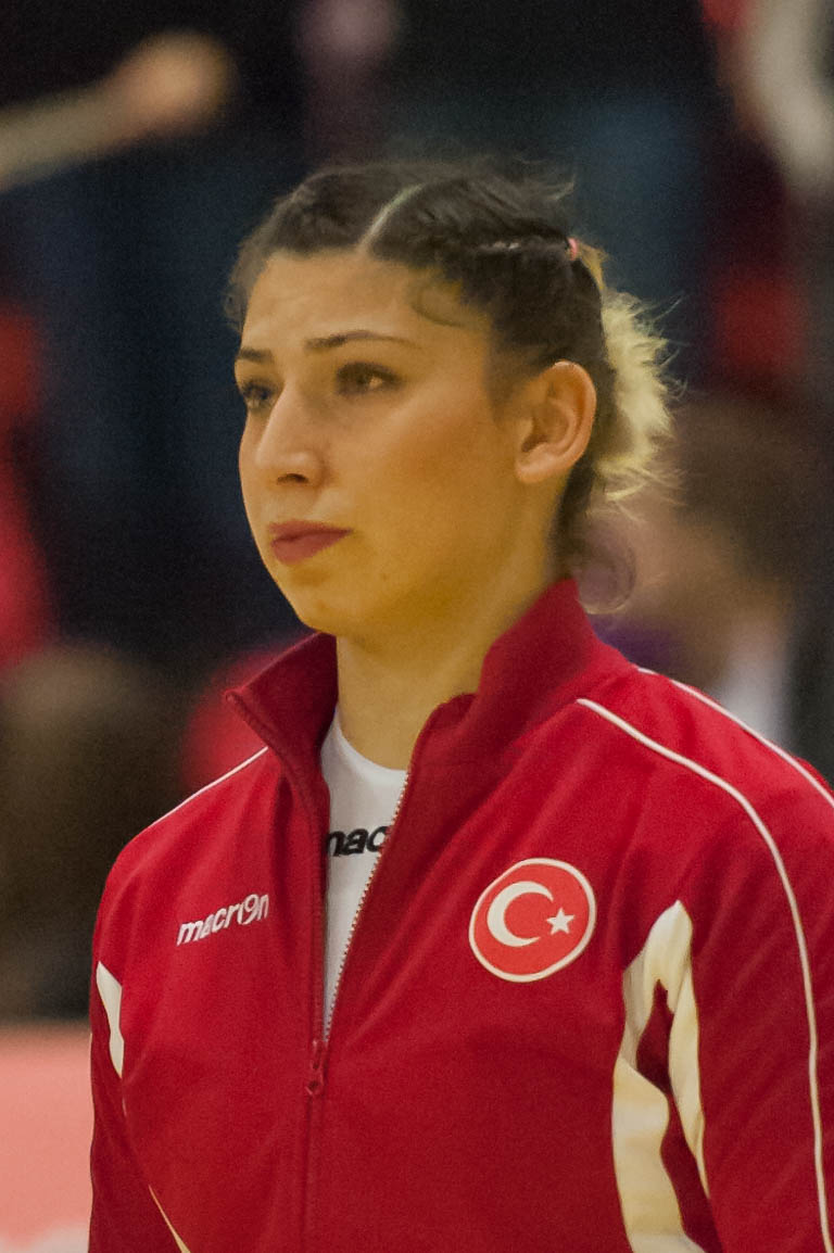 2015 World Women's Handball Championship Qualification 2014-12-06: Ceren Demirçelen